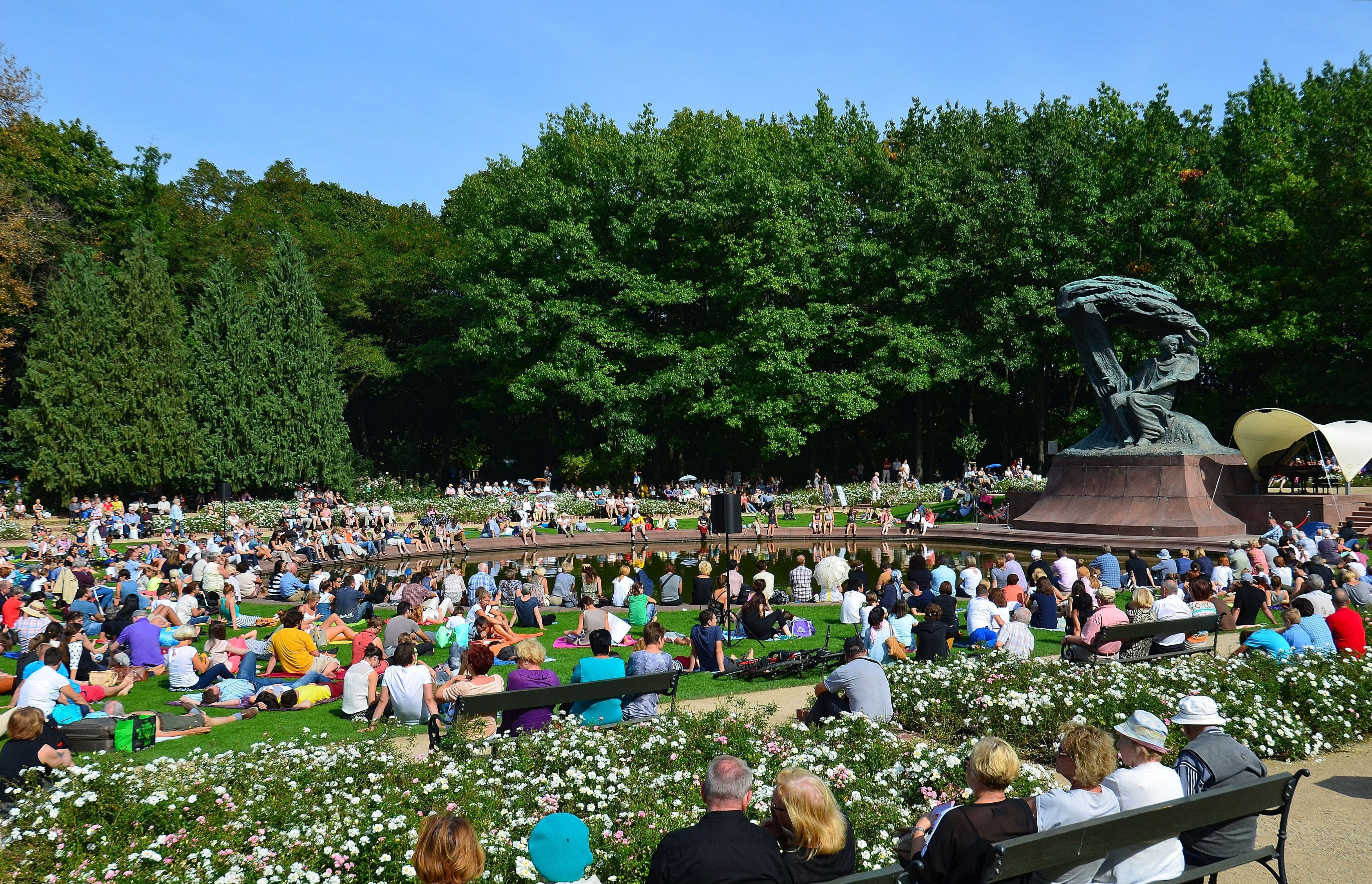 Concert at the monument to Frederick Chopin in Warsaw